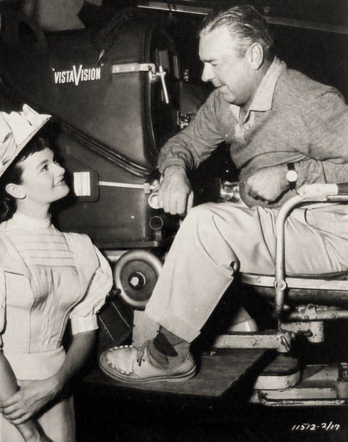 Gloria Talbott and cinematographer Loyal Griggs on the set of We're No Angels (1955) - publicity still